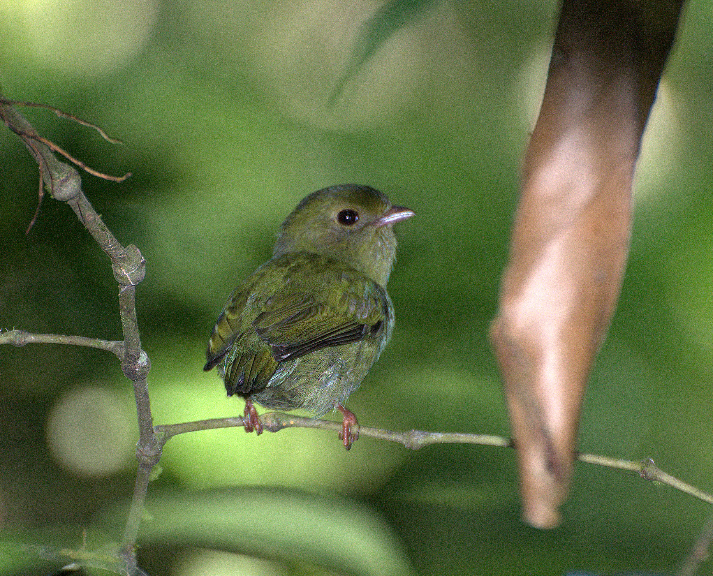 Blue Manakin, female